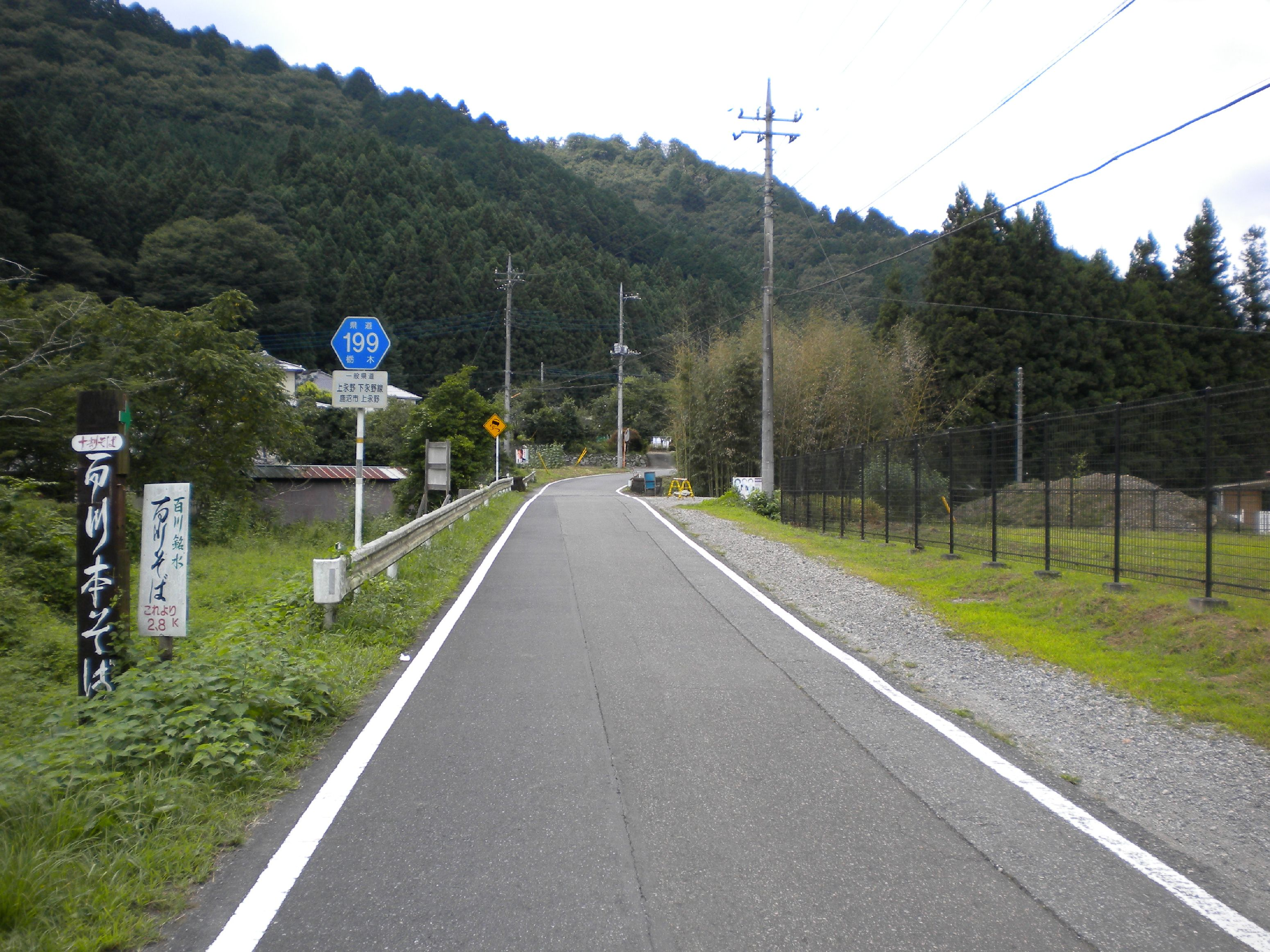 The Tochigi Prefectural Road Route 199 in Kaminagano, Kanuma City